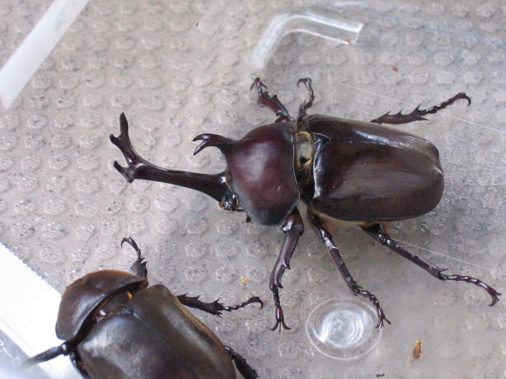 Allomyrina dichotoma Uploaded 02:36, 11 November 2005 (UTC) by Bumm13 (talk) to Wikipedia (log) with attribution to Gombe.